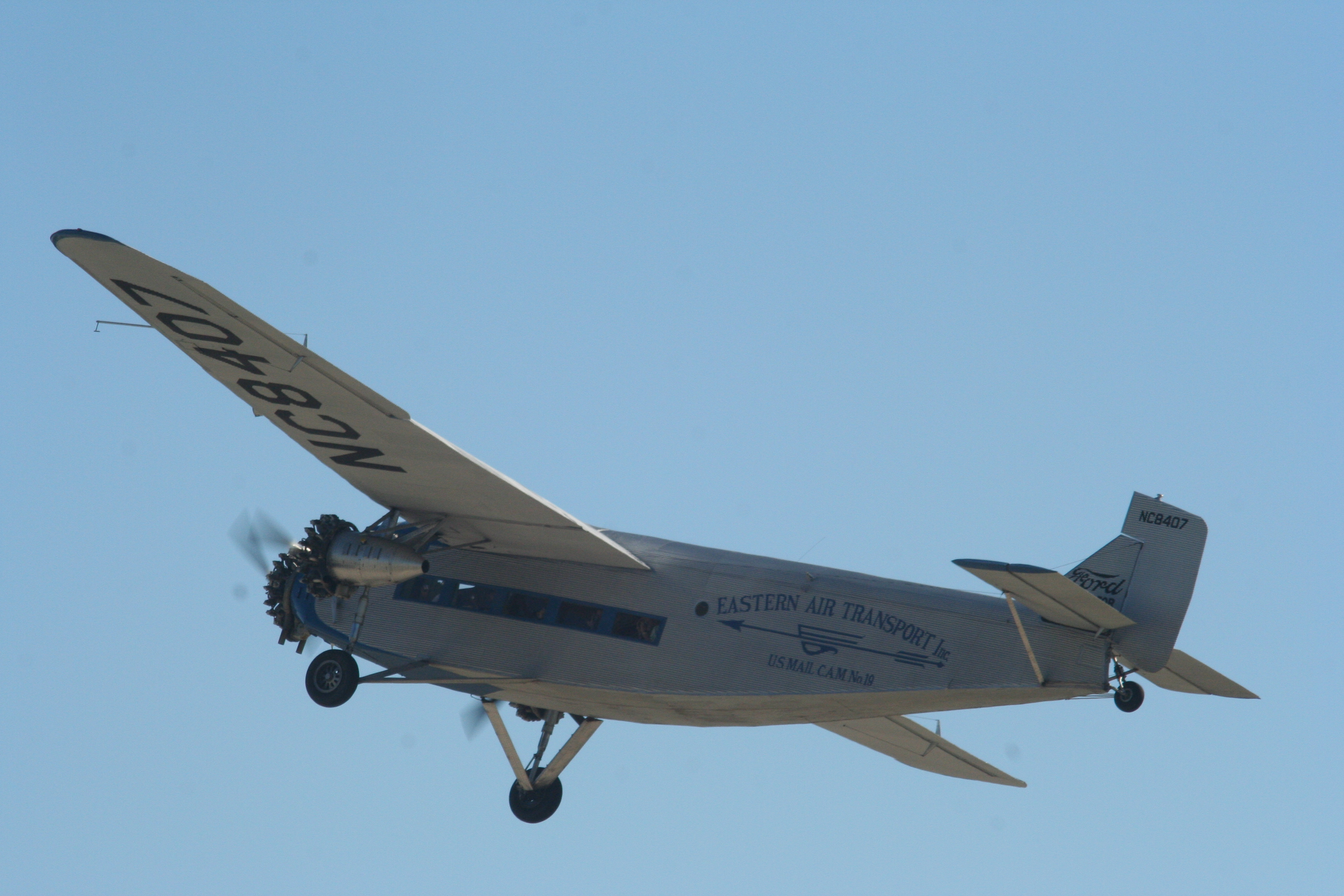 EAA Ford Trimotor (NC8407)